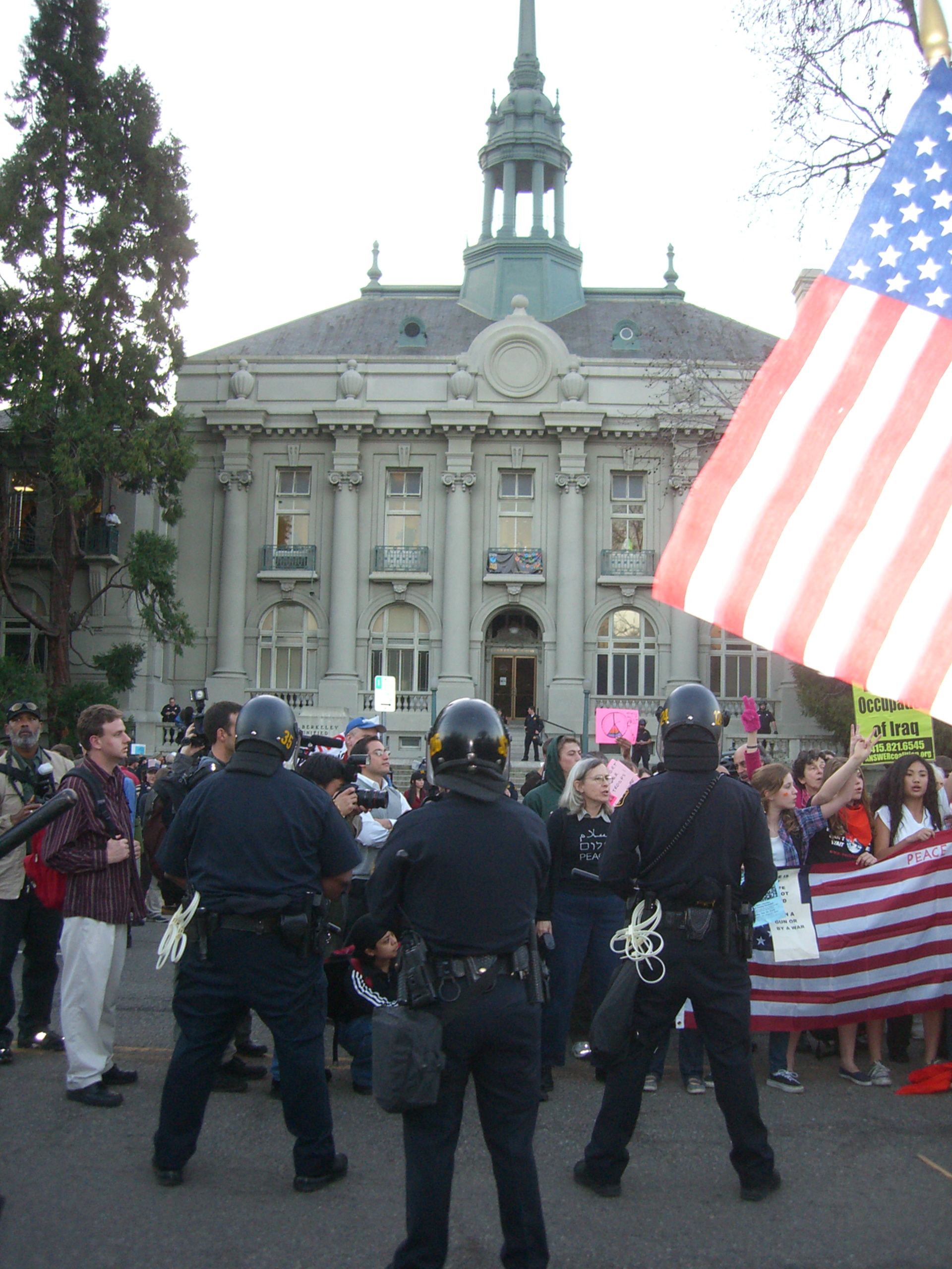 Backs of Police and Code Pink at protest.